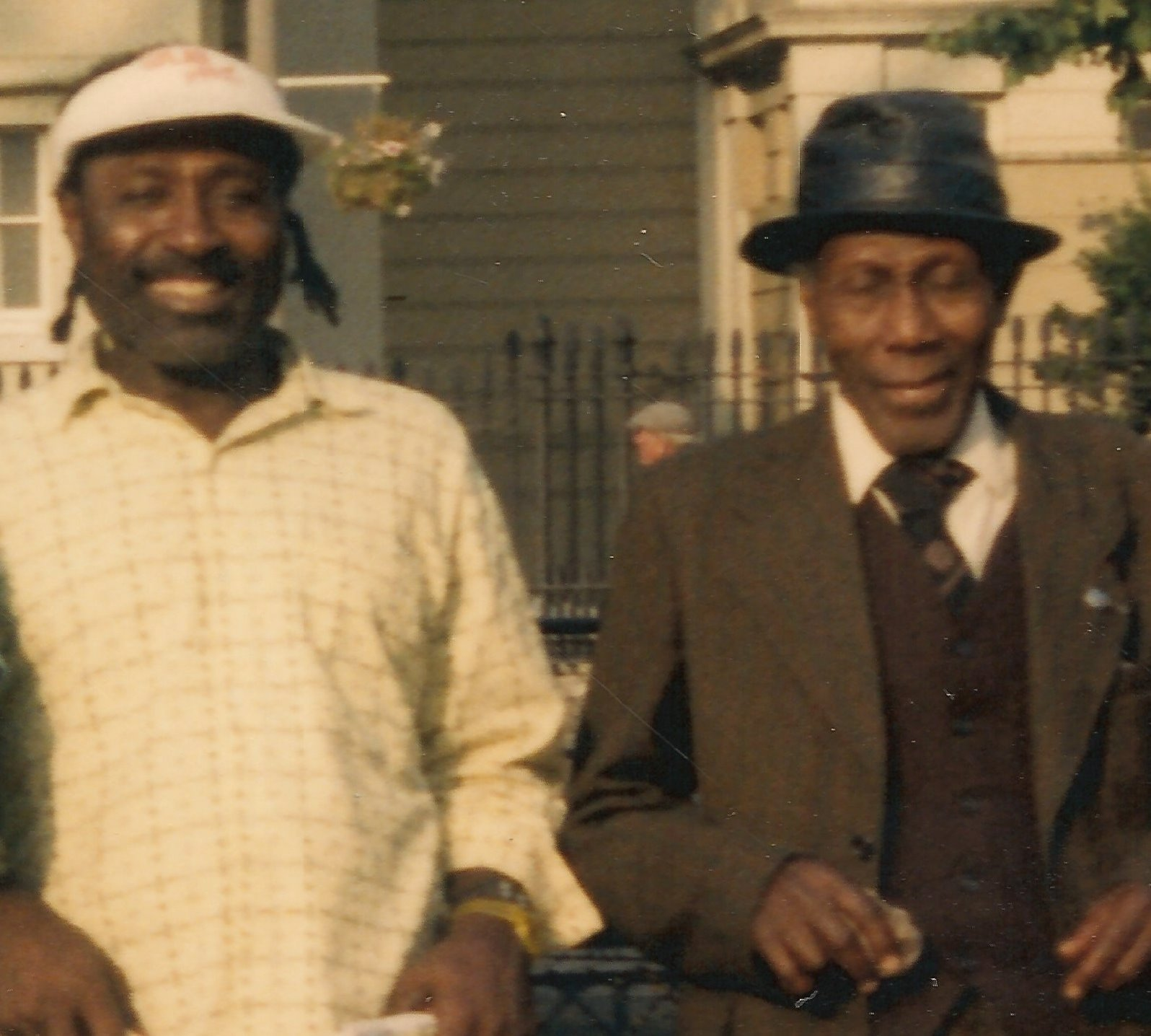 Winston Grennan with his Uncle, the musician Christopher L. Scott